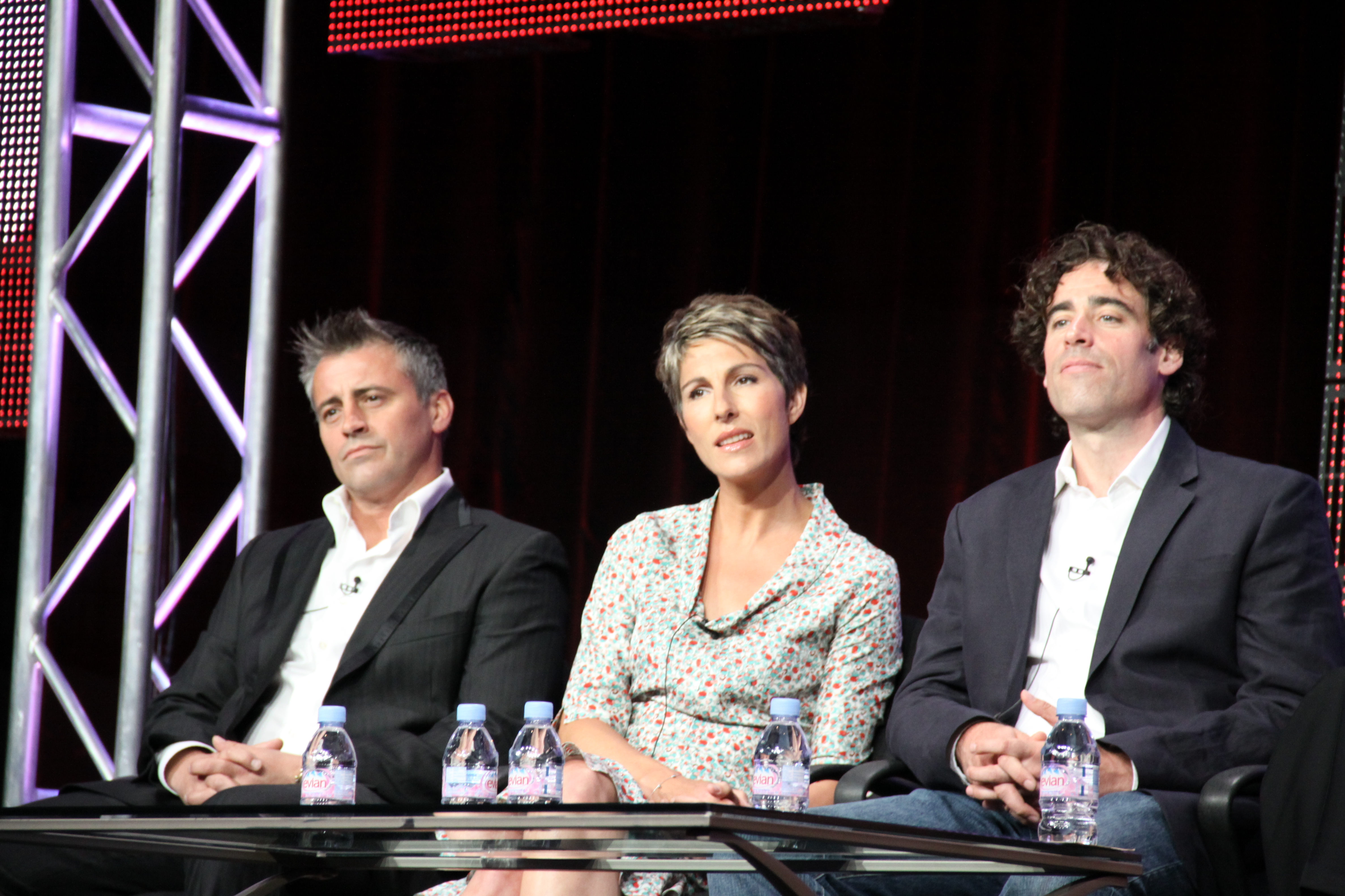 Cast of TV series "Episodes" at the 2010 Summer Session of the Television Critics Assocation.